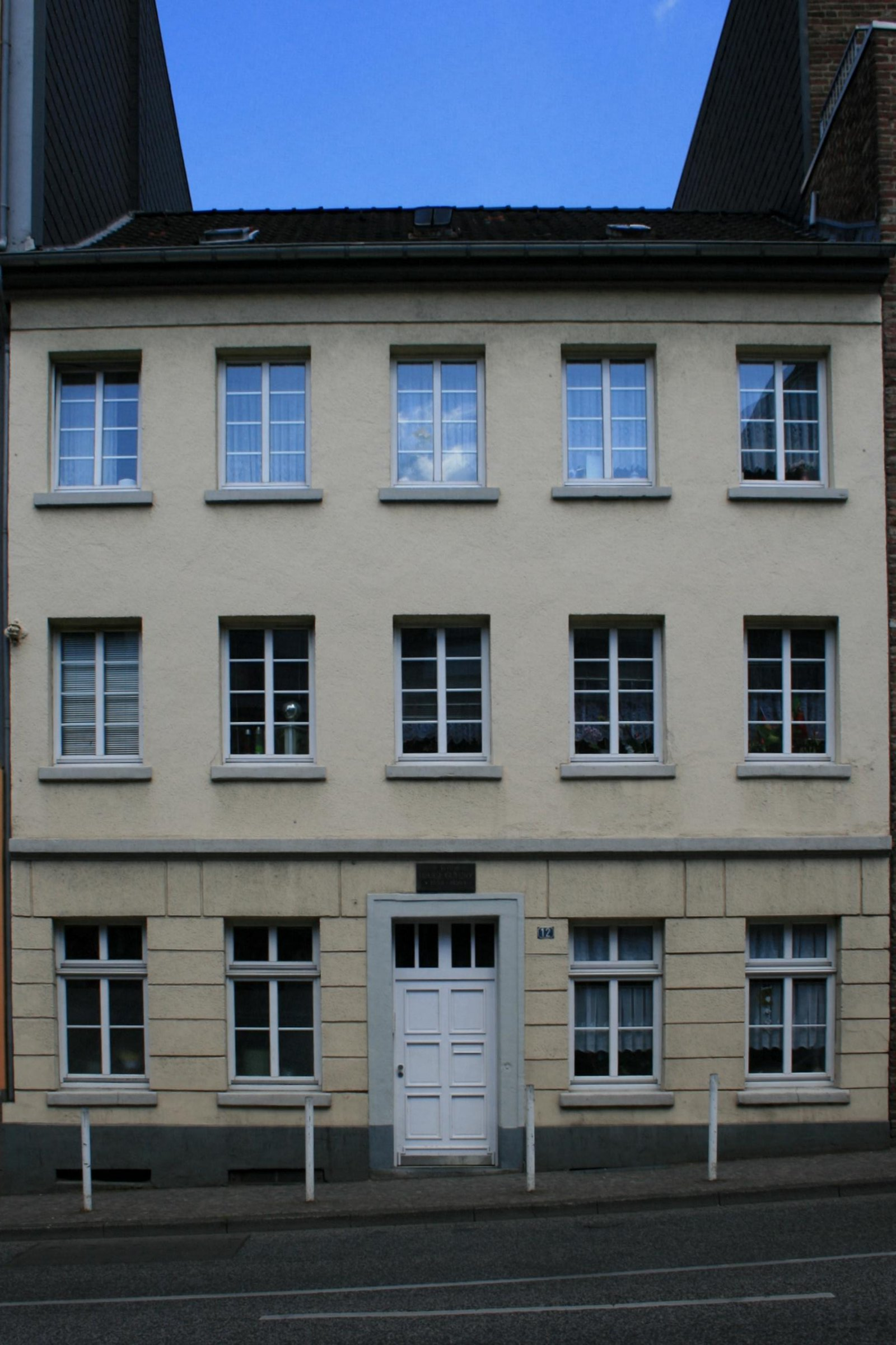 Cultural heritage monument No. A 043 in Mönchengladbach